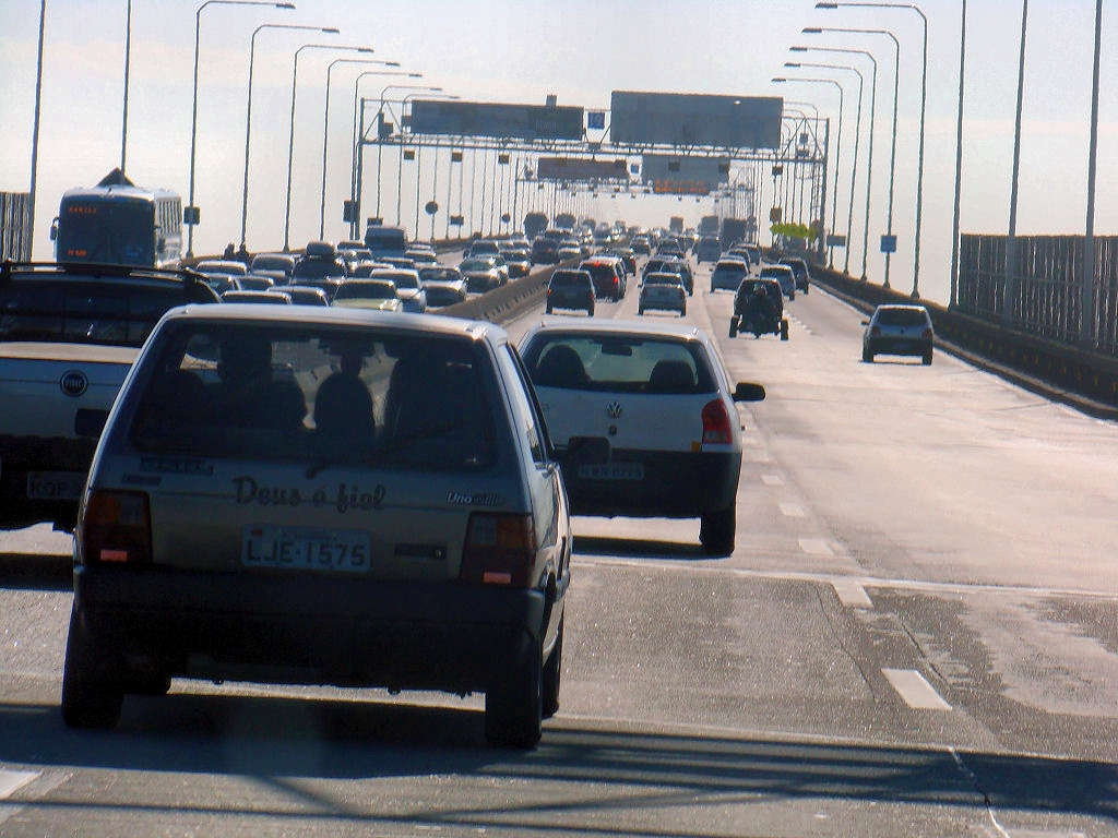 Traffic on the Rio-Niterói Bridge.